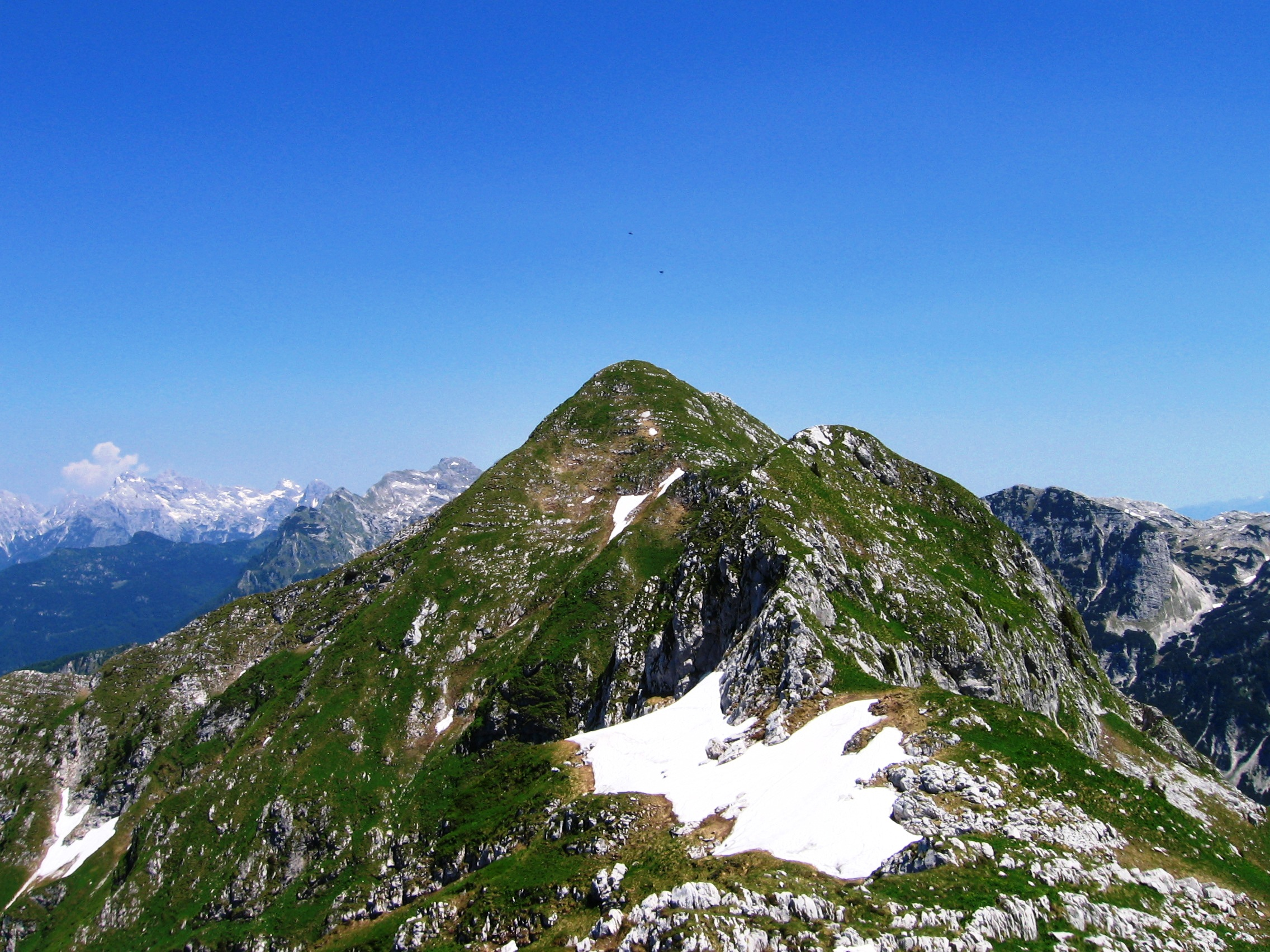 Summit of Veliki Lemež (2041 m) in Slovenia